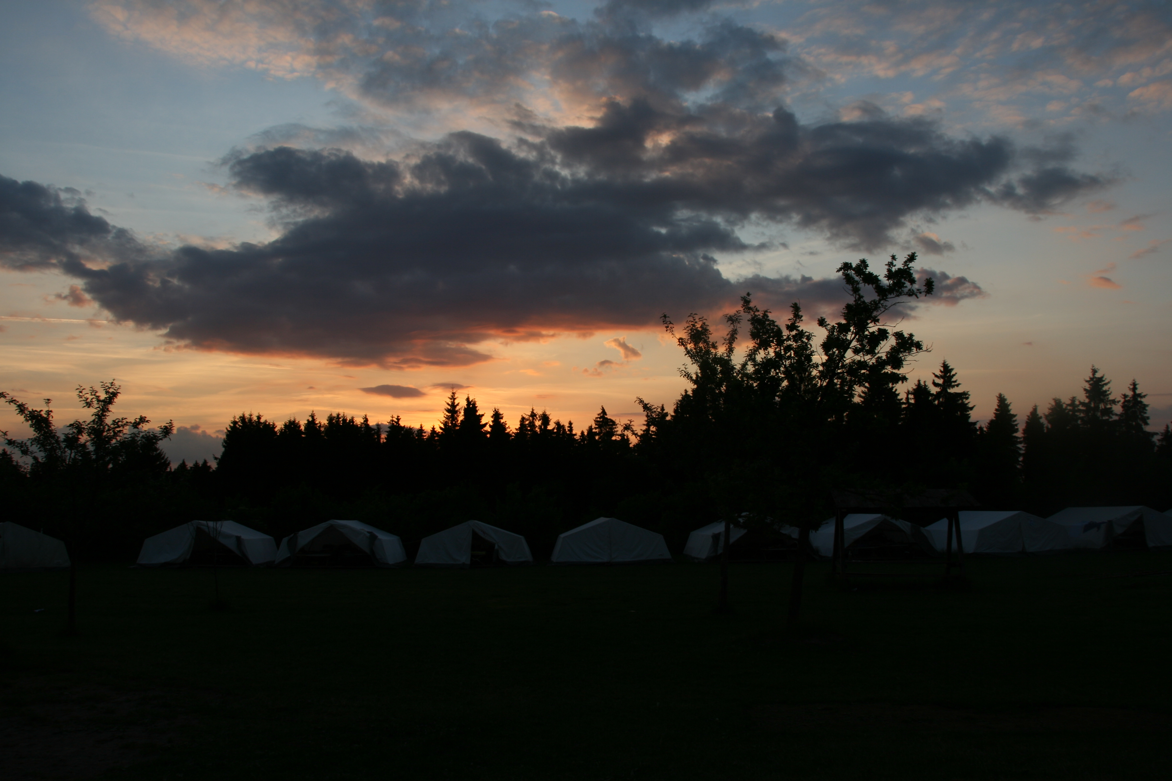 Camp at Hoheneiche